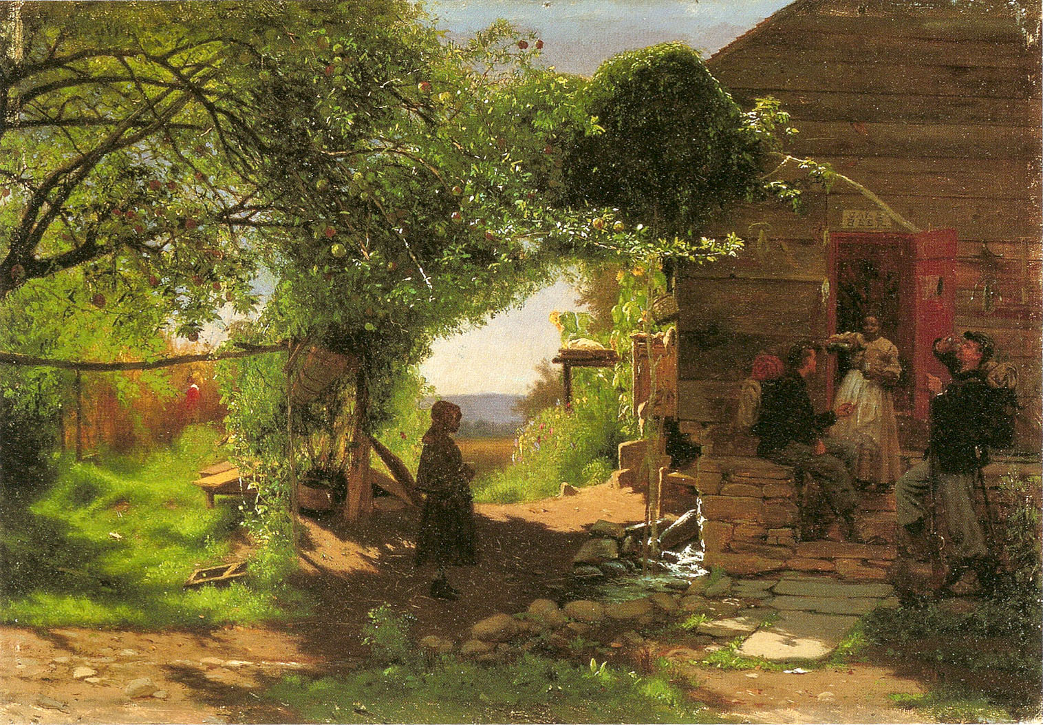 Eastman Johnson - Union Soldiers Accepting a Drink - Oil on canvas - 10.75 x 15.25 in - c 1865 - Scanned from Eastman Johnson: Painting America - fig 75 pg 139